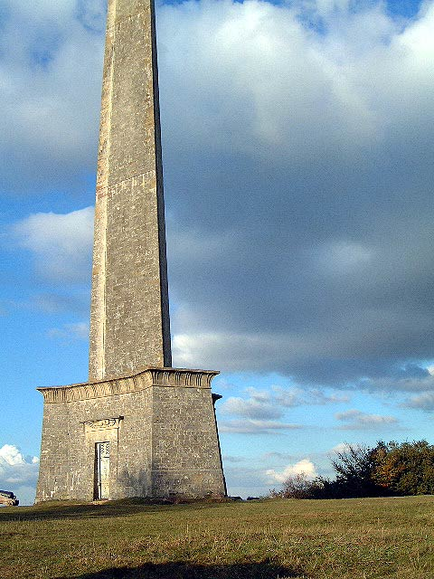 Wellington Monument in Somerset. The monument is 175 feet high and was a tribute to the Duke of Wellington. Stairs lead up to the top.